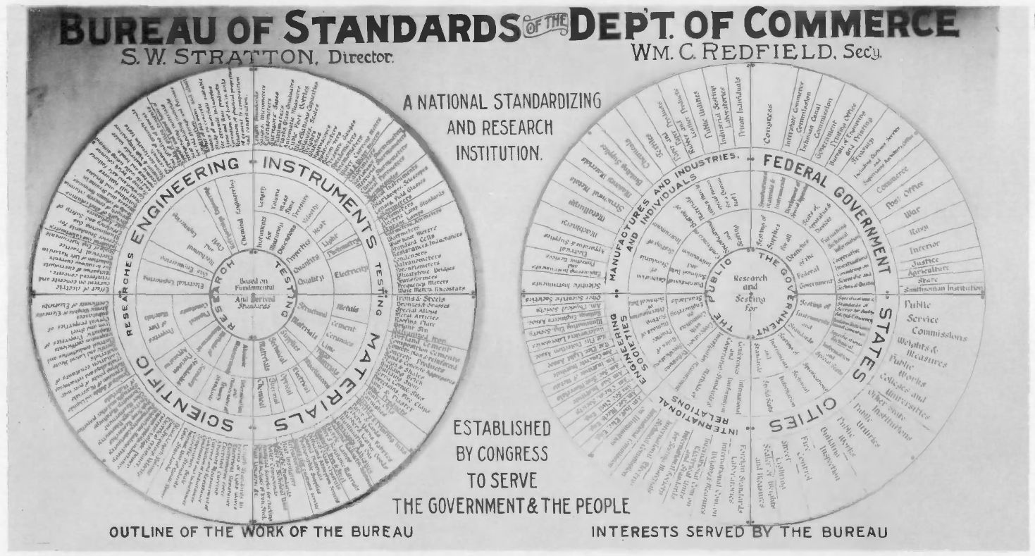 The proliferation of Bureau interests, abetted by special congressional appropriations for investigations not covered in the Organic Act, inspired the wheeled chart of NBS activities. It was probably prepared for an appropriations hearing before Congress about 1915.